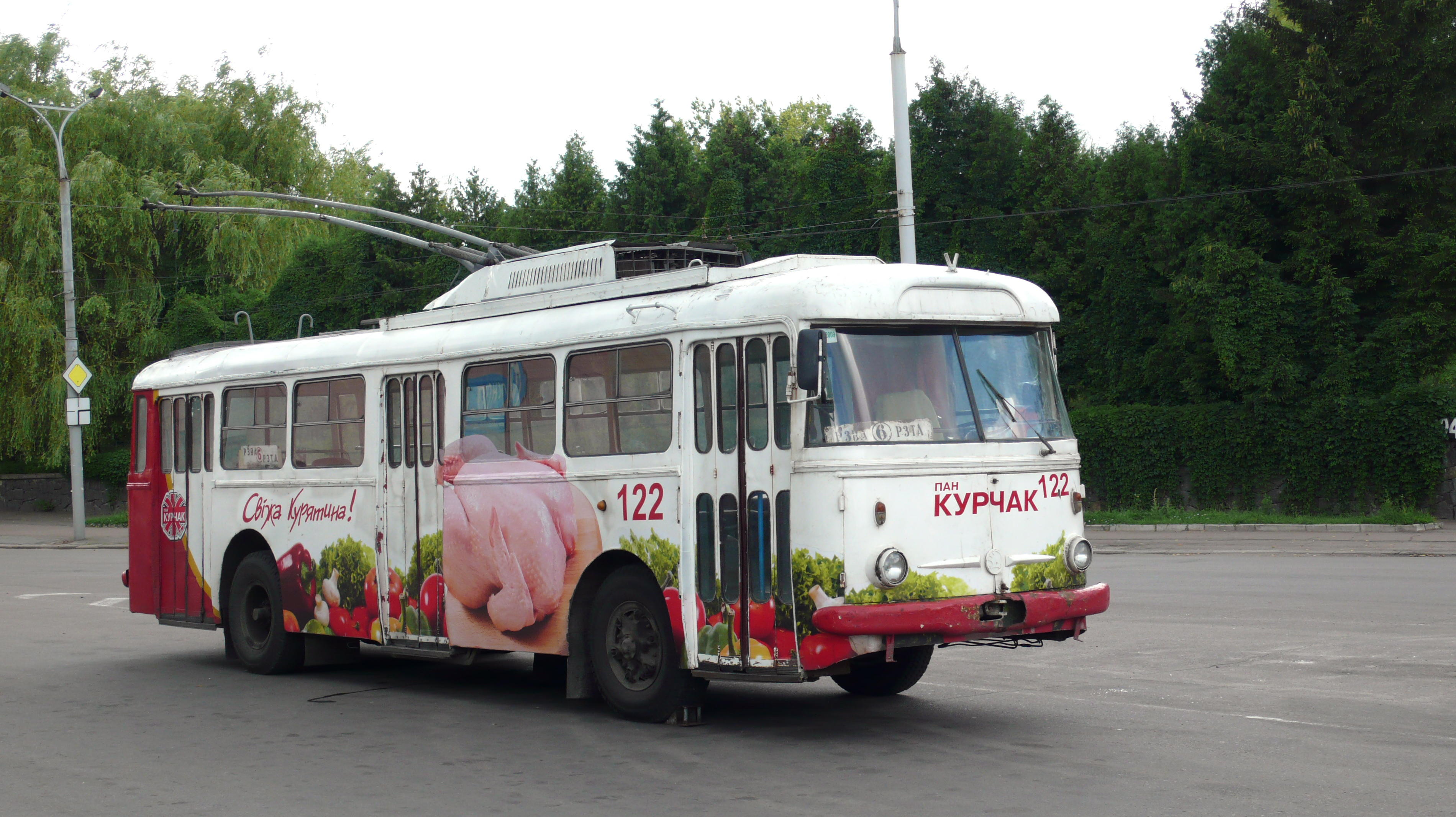 Trolleybus in Ukraine.